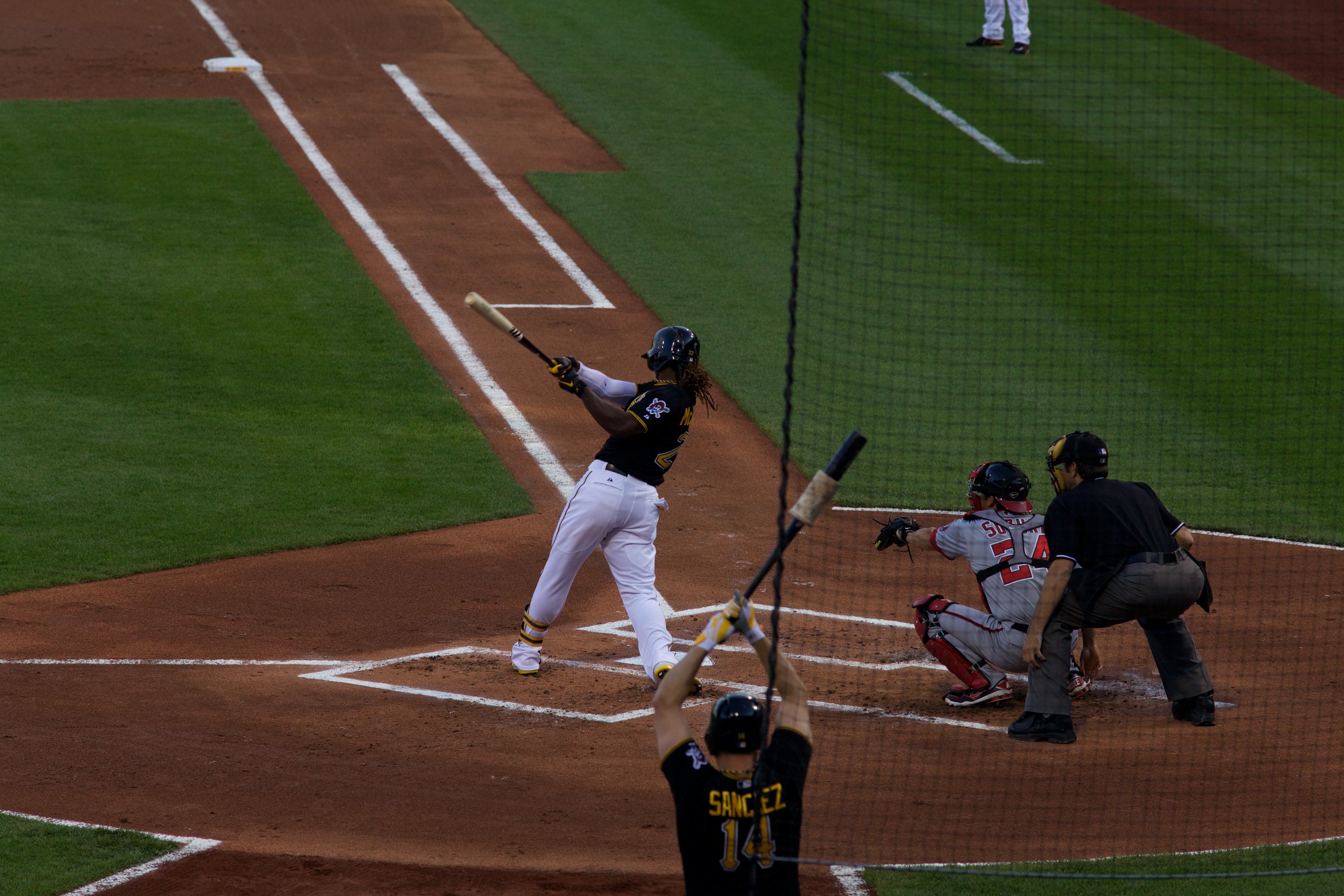 Fan favorite Andrew McCutchen swings at PNC Park on his way to an MVP season.